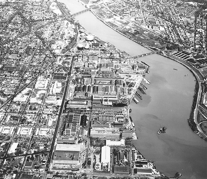 Aerial view of the Washington Navy Yard and its Navy Yard district vicinity — looking eastward from over the South Capitol Street area, circa 1960. The Yard's western edge, at First Street SE, is near the lower edge of the photo; its northern boundary, at M Street SE, is marked by the dark-colored street running nearly vertically in the left center. The Anacostia River runs diagonally from lower left to upper right center, crossed by the Eleventh Street Bridge (in center) and the John Philip Sousa Bridge (Pennsylvania Avenue) (near the top).